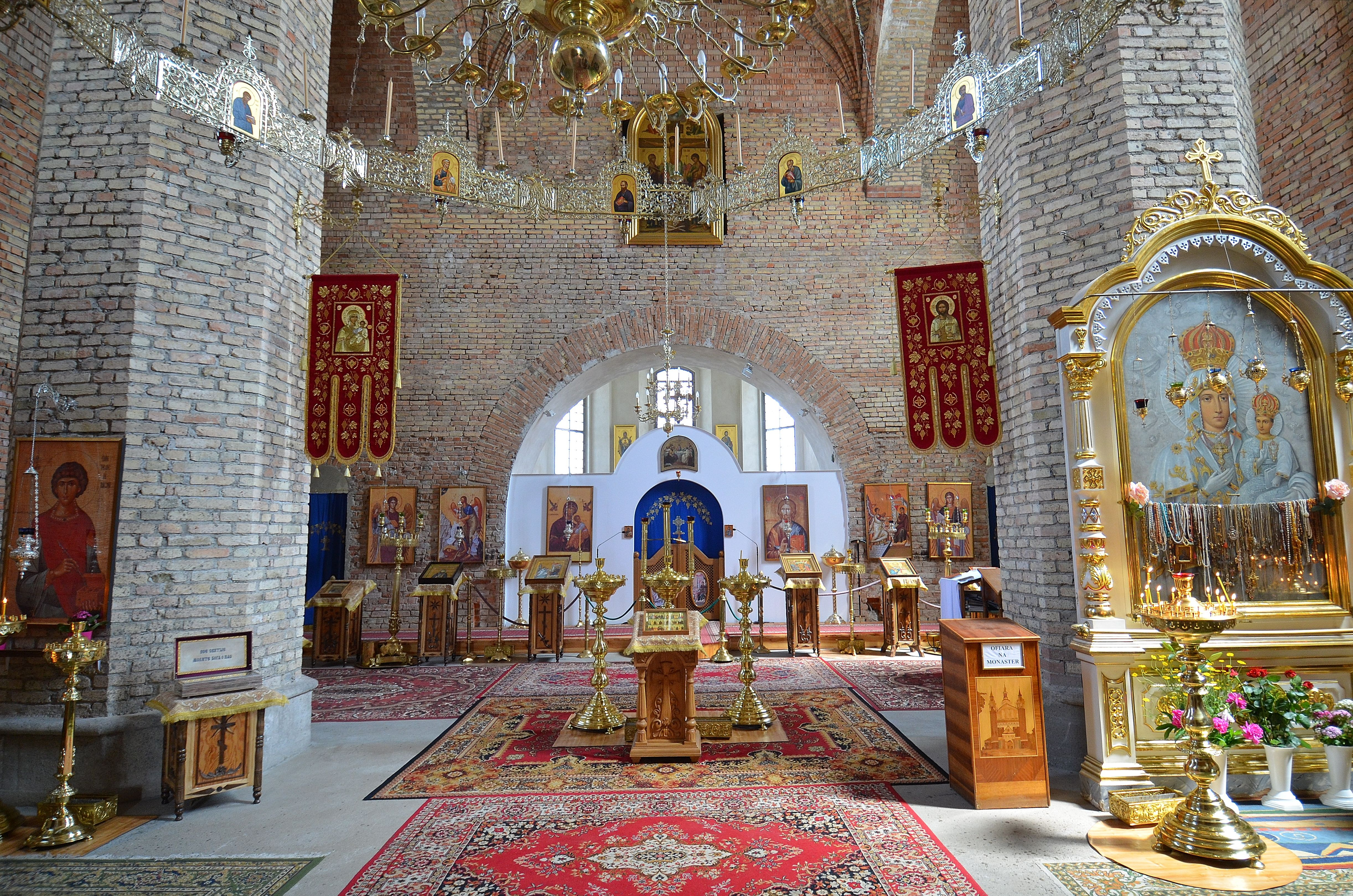 Interior of Orthodox church of the Annunciation in Supraśl